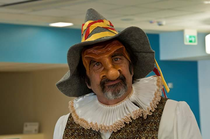 Enzo Colacino rappresenta Giangurgolo